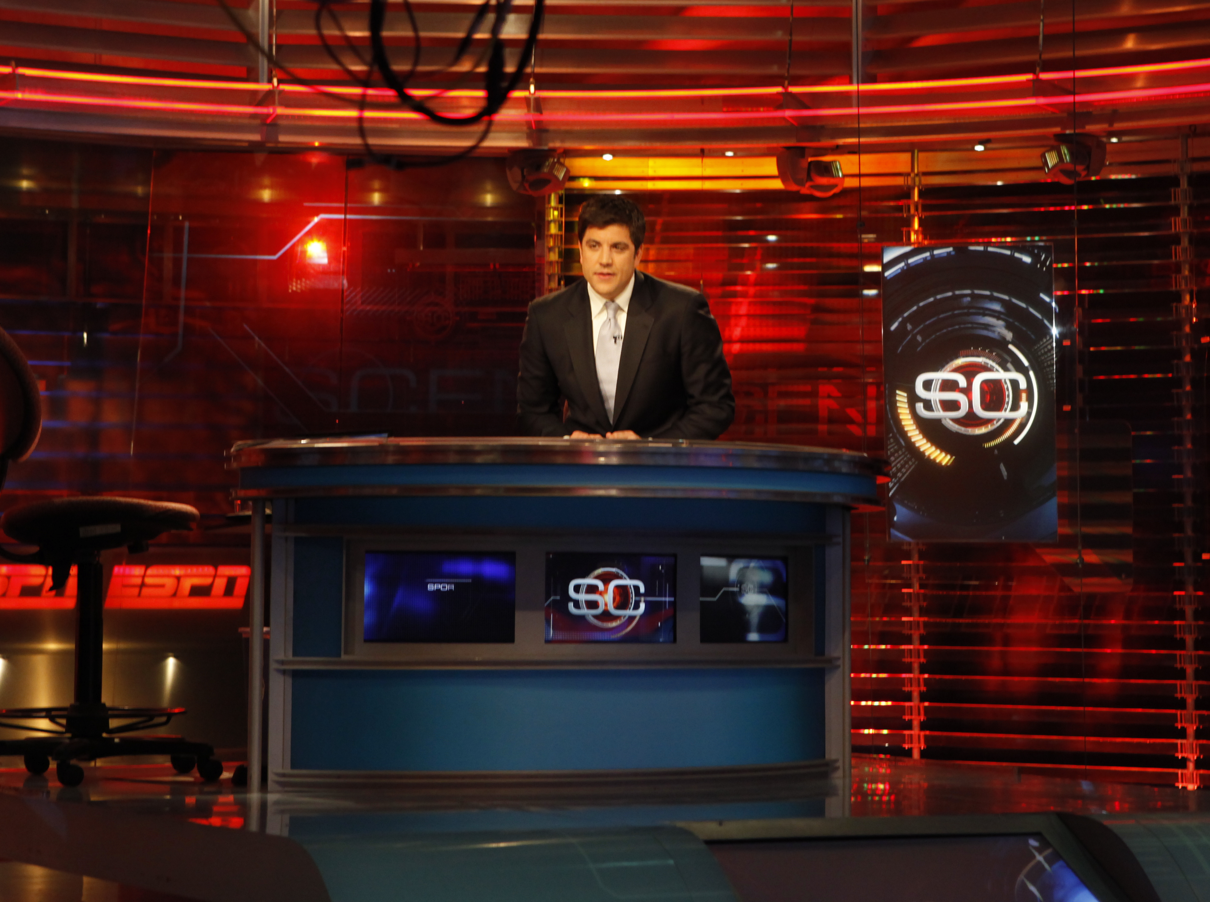 Josh Elliott in the Sportscenter studio in 2010. This file has been extracted from another file: Josh Elliott in Sportscenter studio.jpg